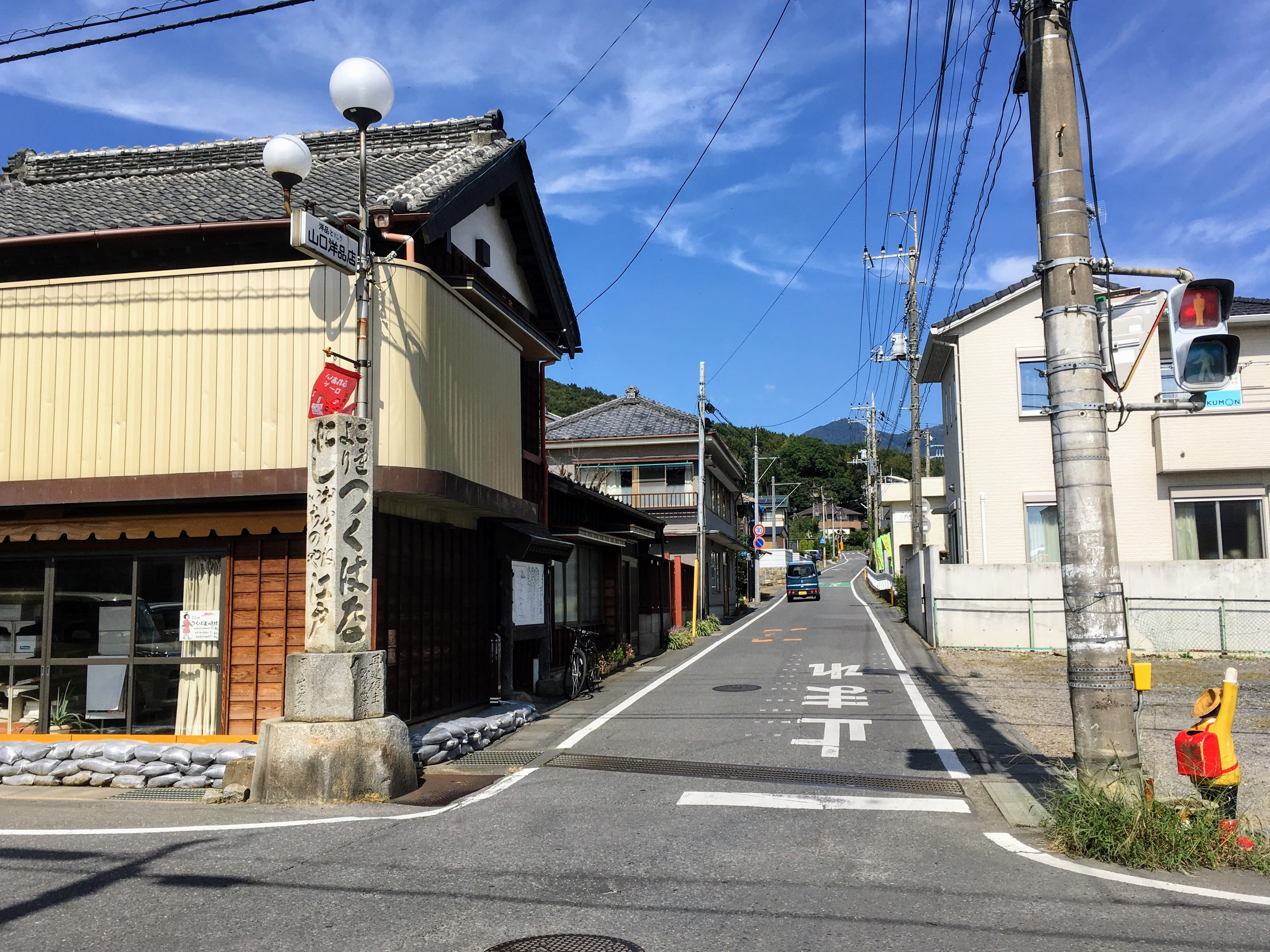 Starting point of Tsukuba-dō and milepost at Hōjō, Tsukuba